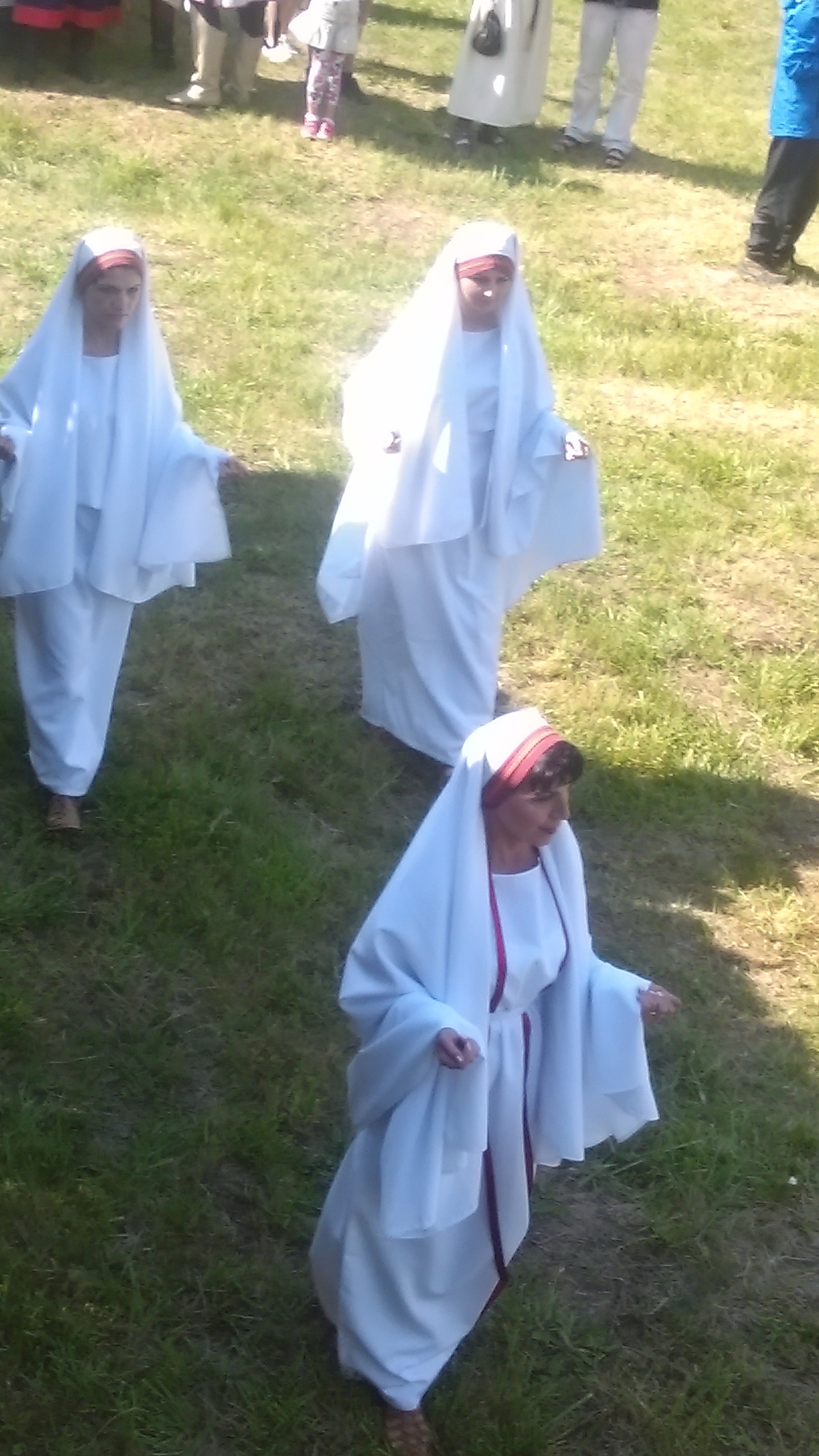 Vestals, Abritus historical reenactment, Razgrad